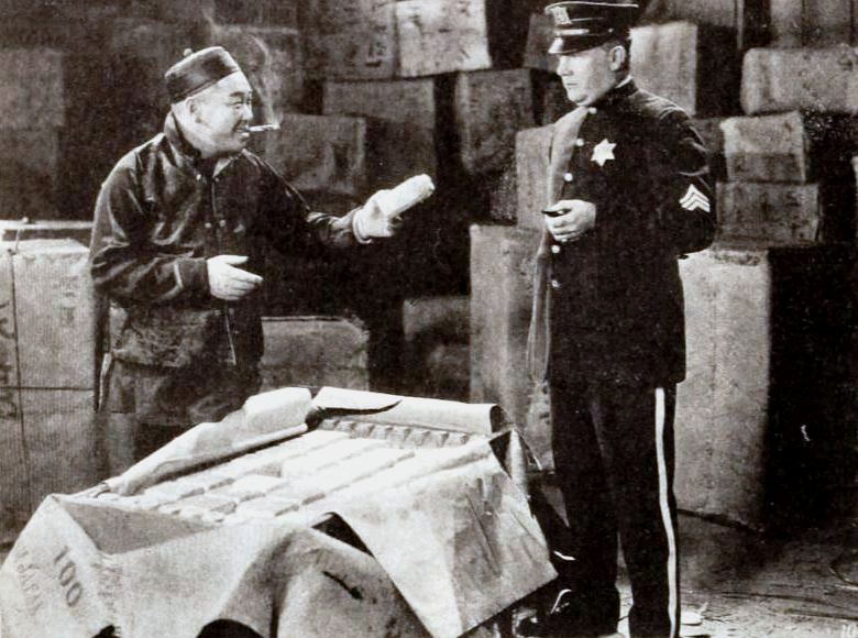 Still from the American silent drama film Where Lights Are Low (1921) with an unidentified actor and Harold Holland (1885 – 1974) as police Sergeant McConigle, on page 40 of the July 30, 1921 Exhibitors Herald.